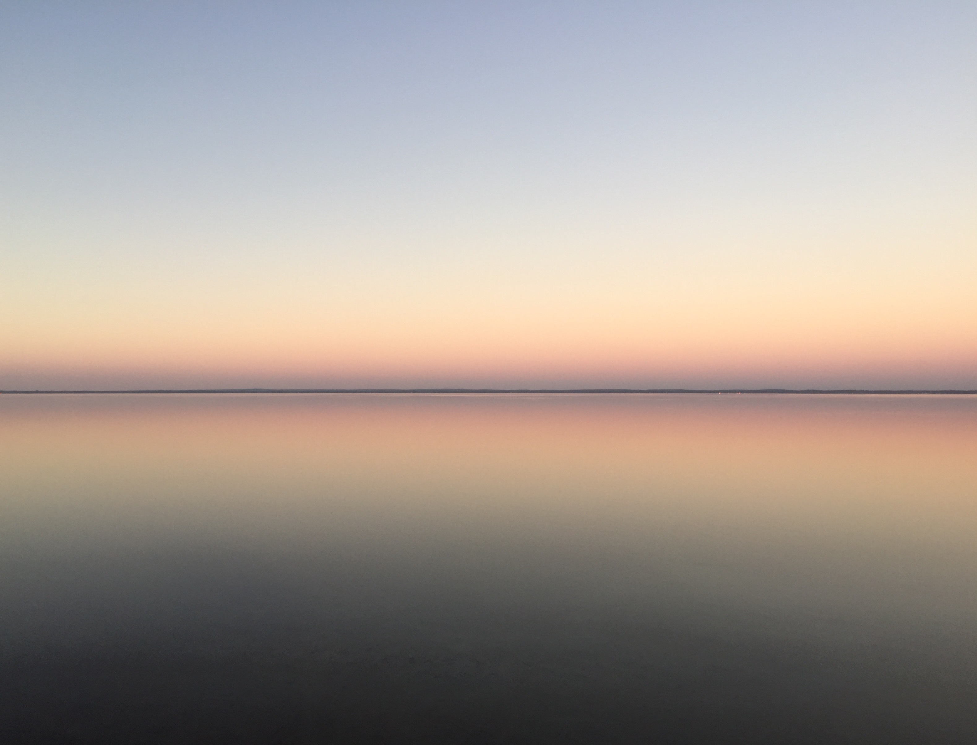 Sunset over Houghton Lake, Michigan.